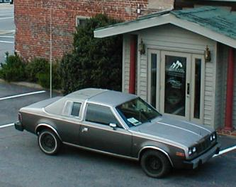 Photo of 1980 AMC Concord 2 door by Eric Sechrist.